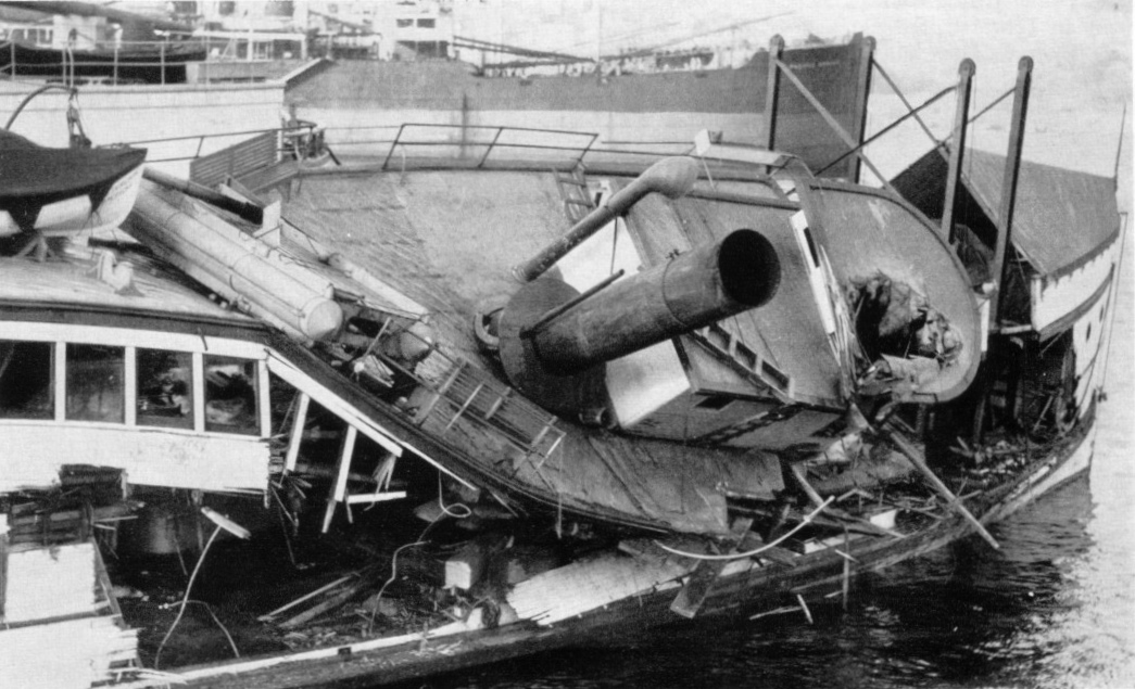 Steamboat Virginia V, showing damage sustained following collision with dock forced by storm on October 21, 1934. This photograph appears to have been taken on Lake Union where the vessel was towed for evaluation and repair.